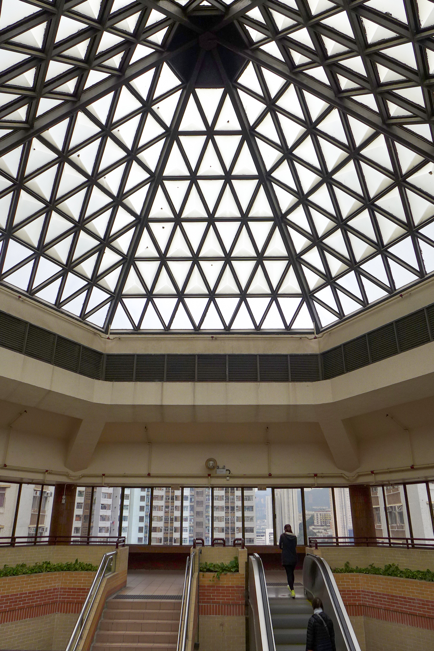 Lei Tung Commercial Centre Phase 2 Atrium